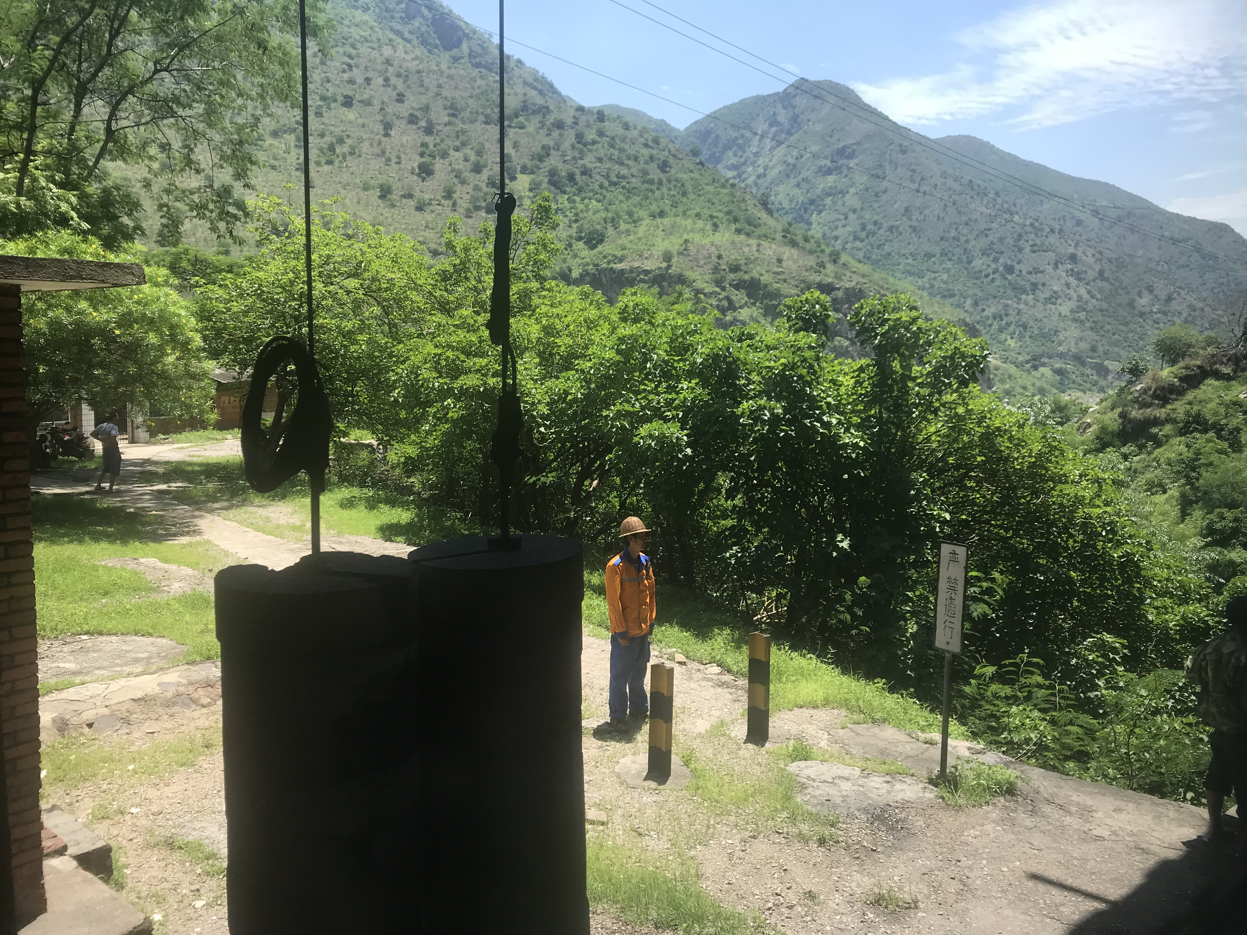 201908 Yudong Halt of Chengdu-Kunming Railway